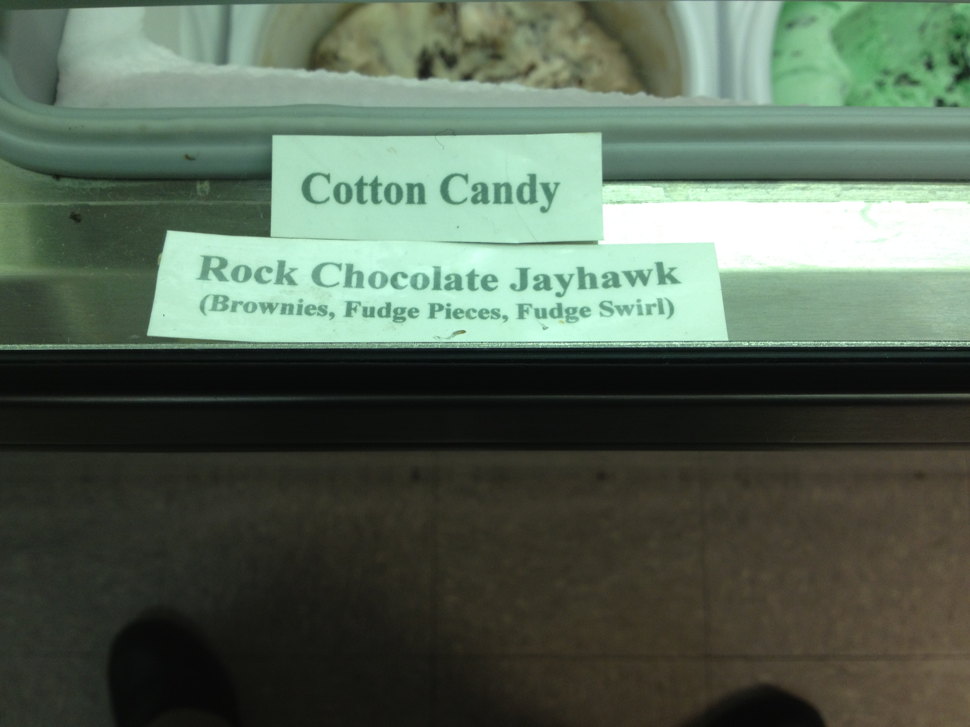 Image of Rock Chocolate Jayhawk ice cream flavor